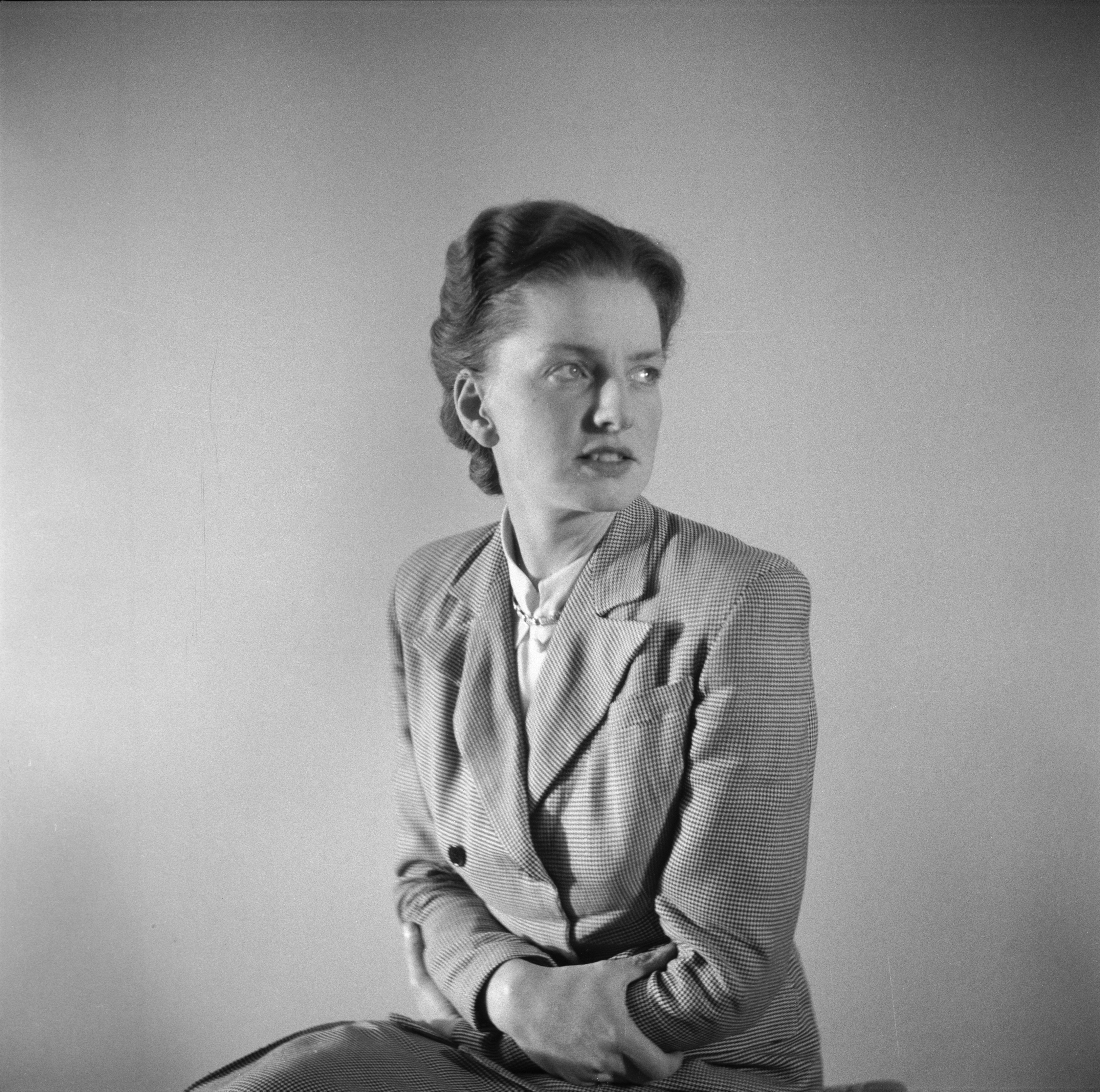 Santeri Levas: Heidi Blomstedt, the youngest daughter of Jean Sibelius and architect Aulis Blomstedt's wife, 1940–1945, Järvenpää. Digitized original negative.